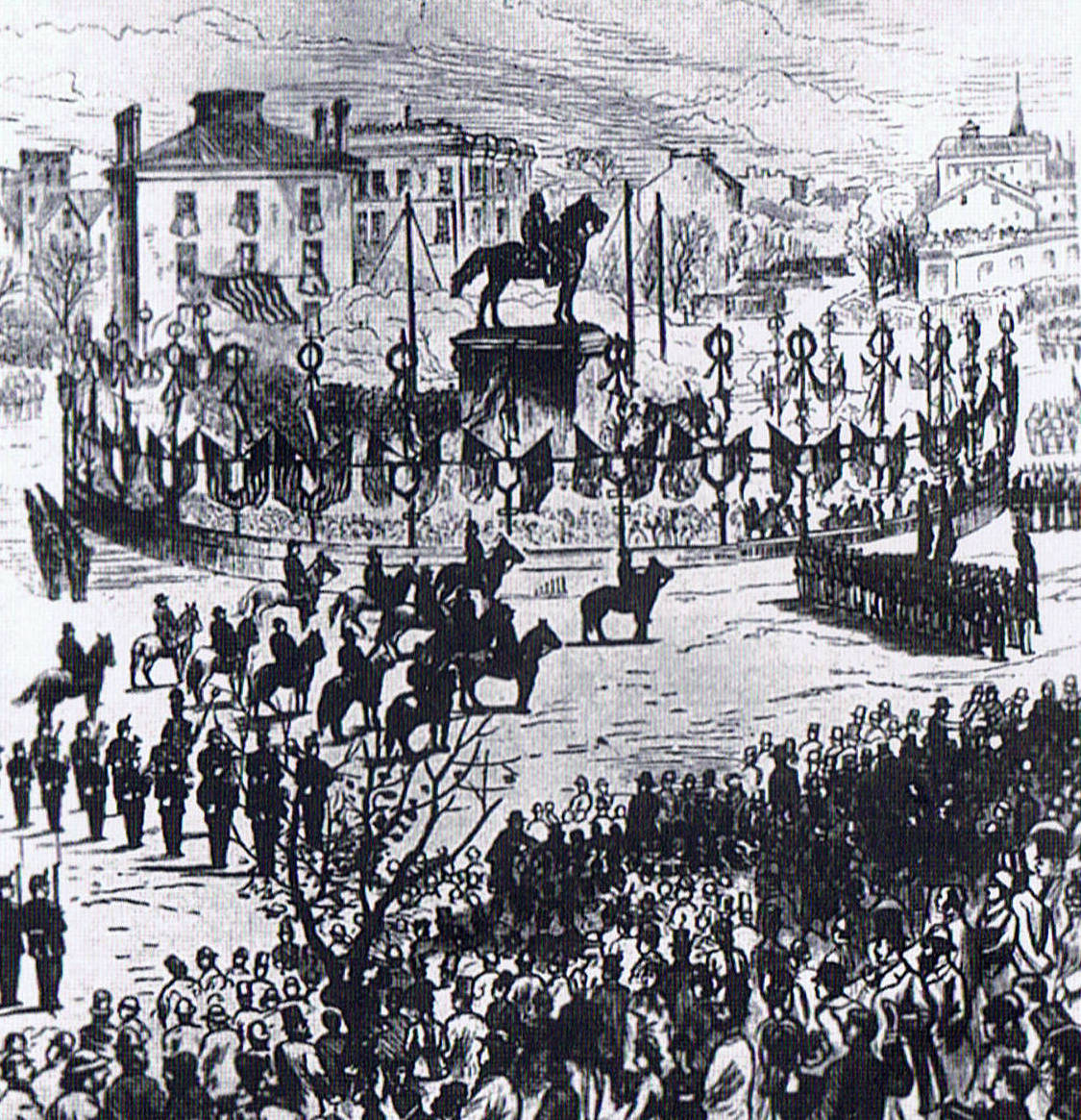 A drawing of the Major General George Henry Thomas sculpture dedication in Washington, D.C.